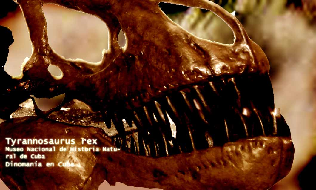 Tyrannosaurus skull in Habana, Cuba